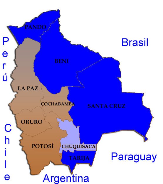 The region of Bolivia known as "la Media Luna" (The Half Moon), that's it the departments with populations where indigenous are no majority. It is discussed if Chuquisaca is part of the Media Luna, because there indigenous are 65,6% of total population. Political map of Bolivia—The major administrative political divisions of Bolivia are "Departments" ("Departamentos" in Spanish).